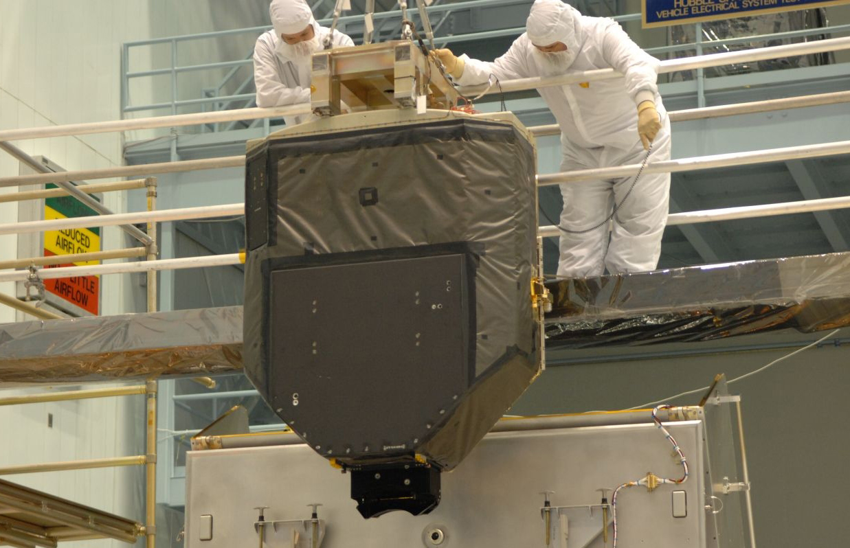 A refurbished Fine Guidance Sensor that was returned from the Hubble Space Telescope on SM3A will replace FGS 2 during SM4. Here, in a large cleanroom at the Goddard Space Flight Center, technicians practice installing the flight unit into its Shuttle carrier.